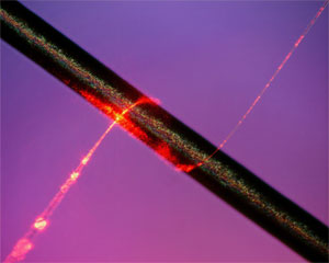 A subwavelength-diameter optical fibre wraps a beam of light around a strand of human hair. The nanowire is about one one-thousandth the width of the hair.